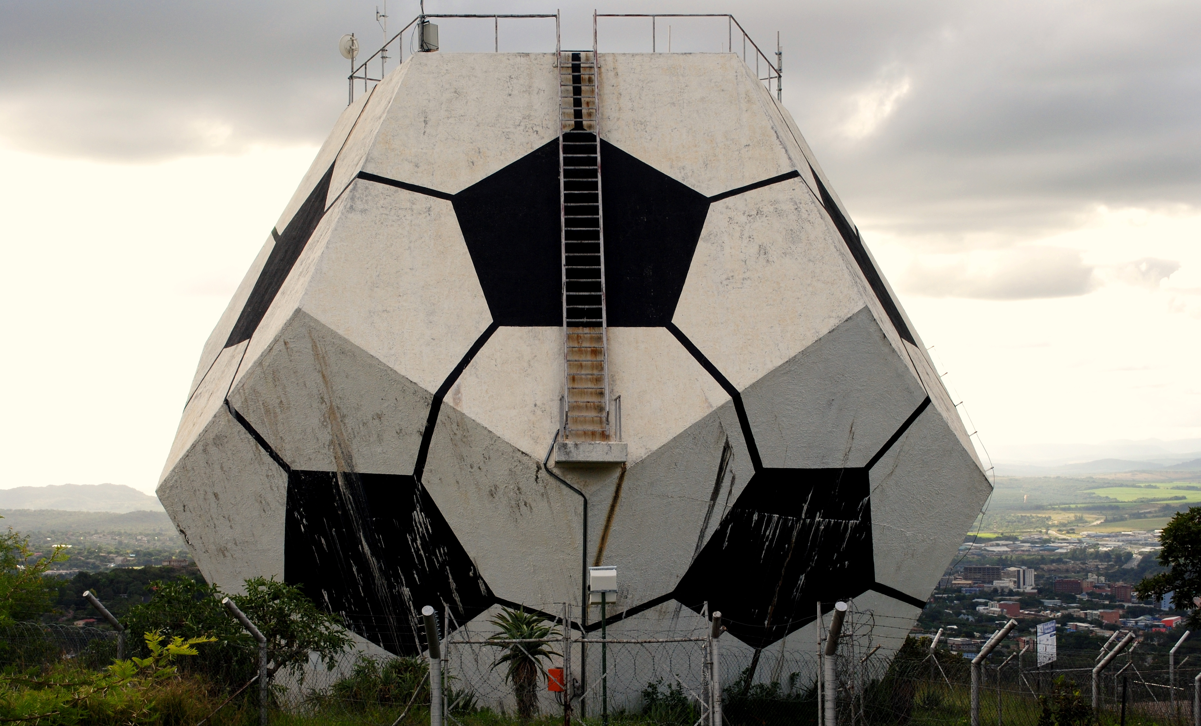 Nelspruit, South Africa, dodecahedron water tower